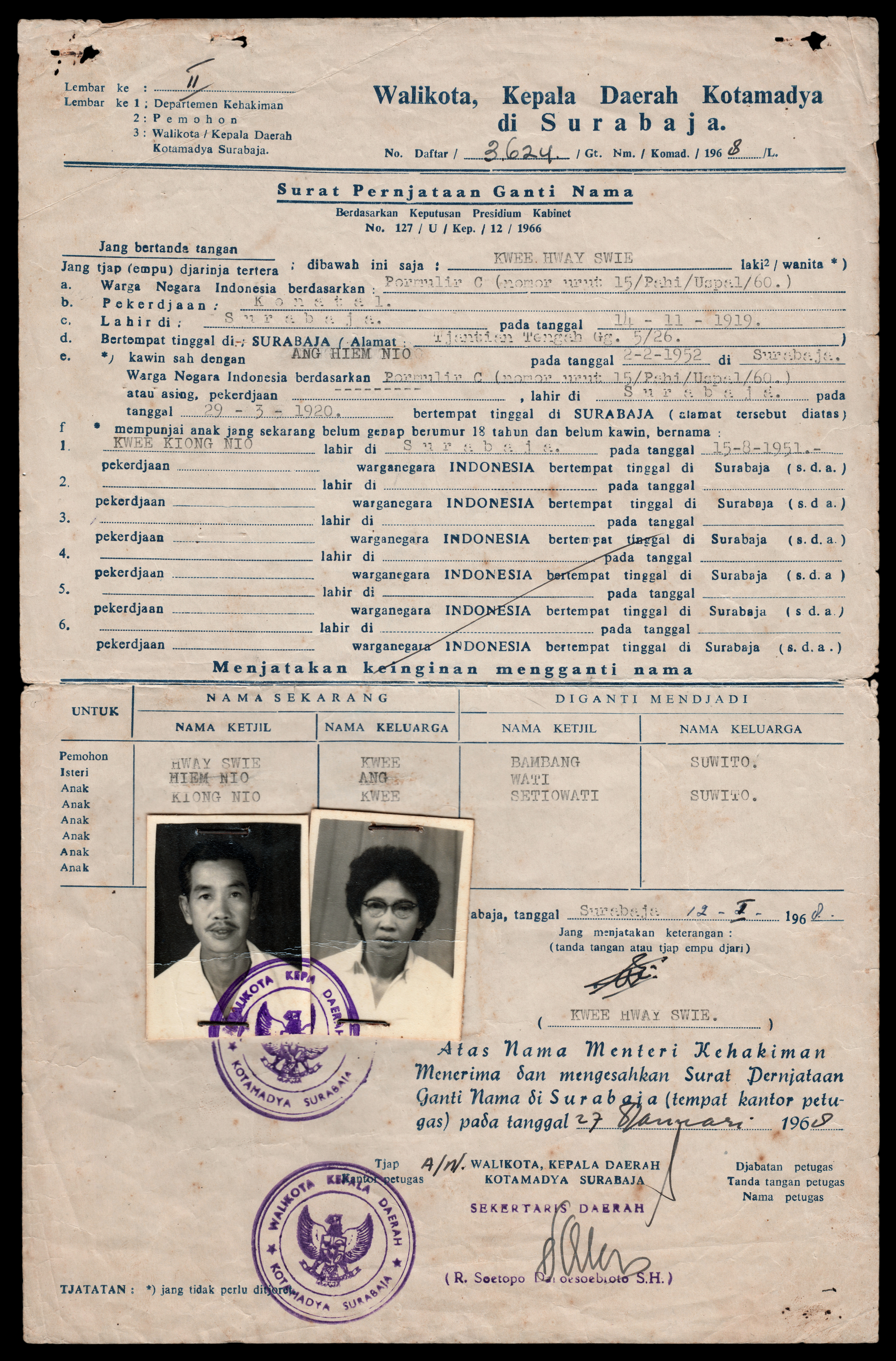 A letter requesting name change for the Kwee family of Surabaya, dated 27 January 1968. Under Decision of the Presidium no. 127 of 1966, Chinese Indonesians were urged to change their Chinese names to Indonesian-sounding ones. Many chose names which resembled their original Chinese family names. Kwee Hwae Swie and his daughter Kwee Kiong Nio took the family name Suwito, while Kwee's wife Ang Hiem Nio simply went by Wati. Though the presidium's decision has since been withdrawn (I think), very few Chinese Indonesians today use their Chinese names for official purposes.